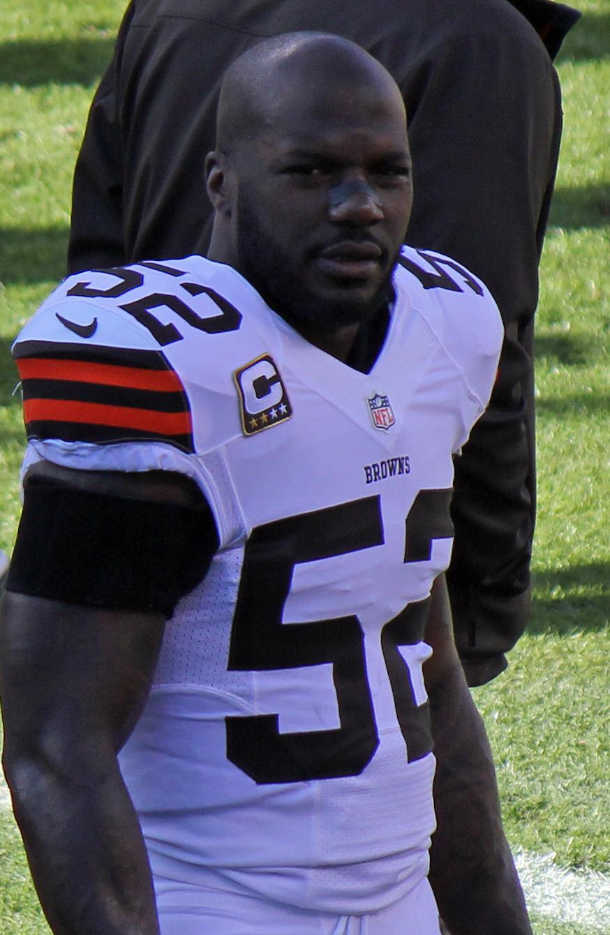 D'Qwell Jackson, a player on the National Football League.